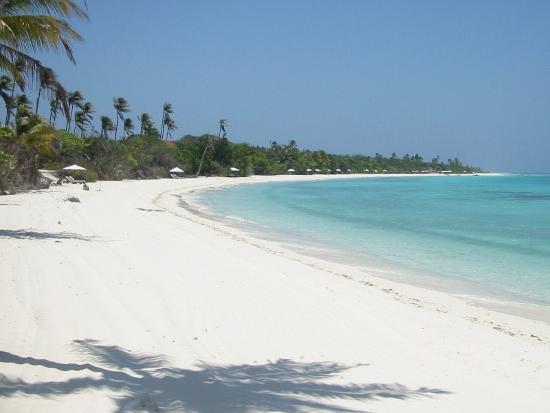 The main beach on the southern shore of Pamalican. Personal photograph, May 2004. Released in the Public Domain.